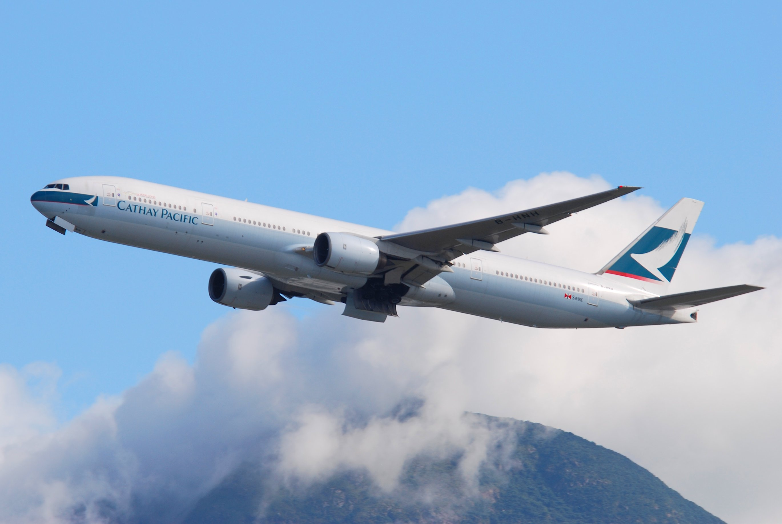 This Boeing 767-367 took its first flight on May 4, 1998...